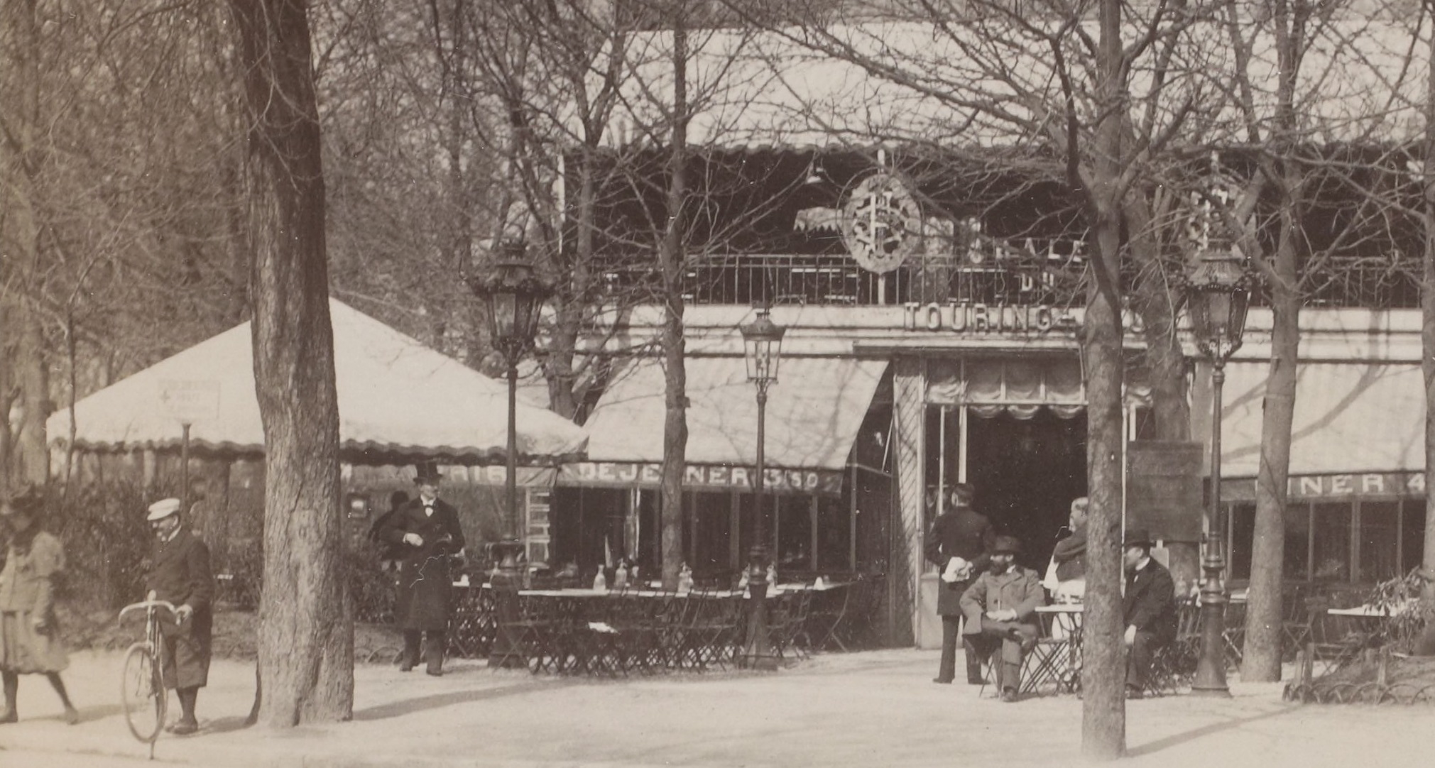 Detail of